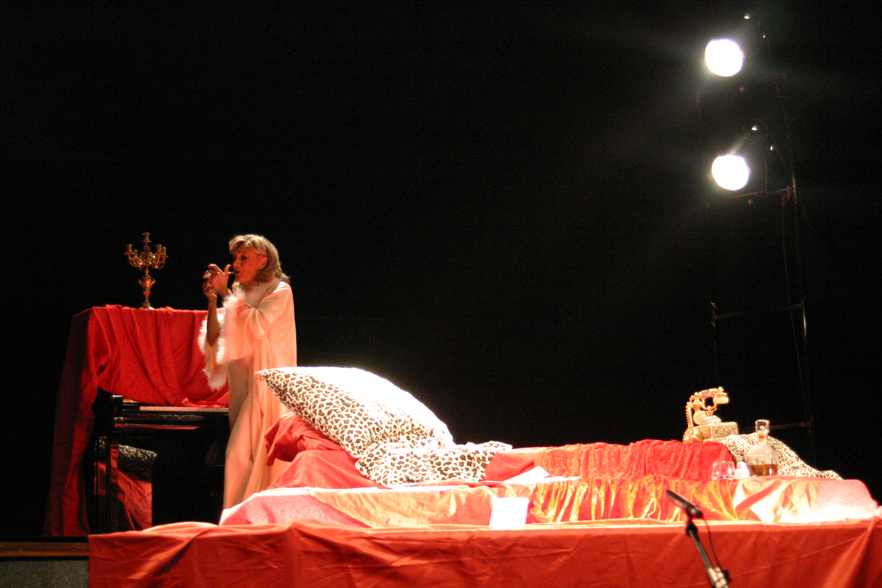 La voz al otro lado, basada en La voz humana, de Jean Cocteau